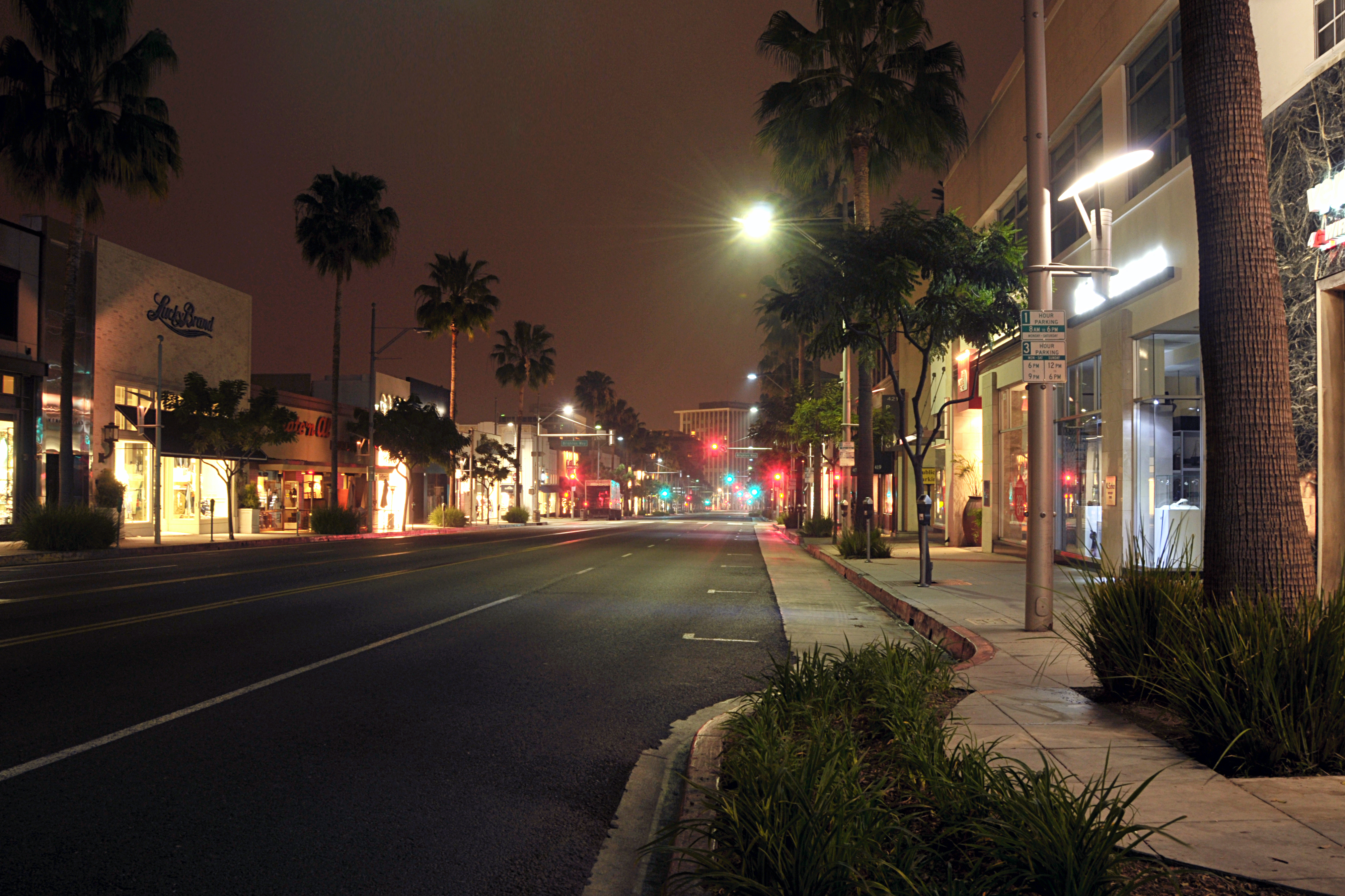 Beverly Drive looking South fromSanta Monica Blvd, Beverly Hills, California - Photo by Glenn Francis of